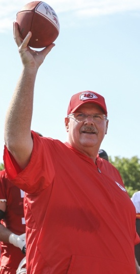 Kansas City Chiefs head coach, Andy Reid at Military Appreciation Day in St. Joseph, Mo at a Chiefs training camp.